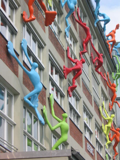 Description: Medienhafen in Düsseldorf. Source: self-made. I release it into the public domain.